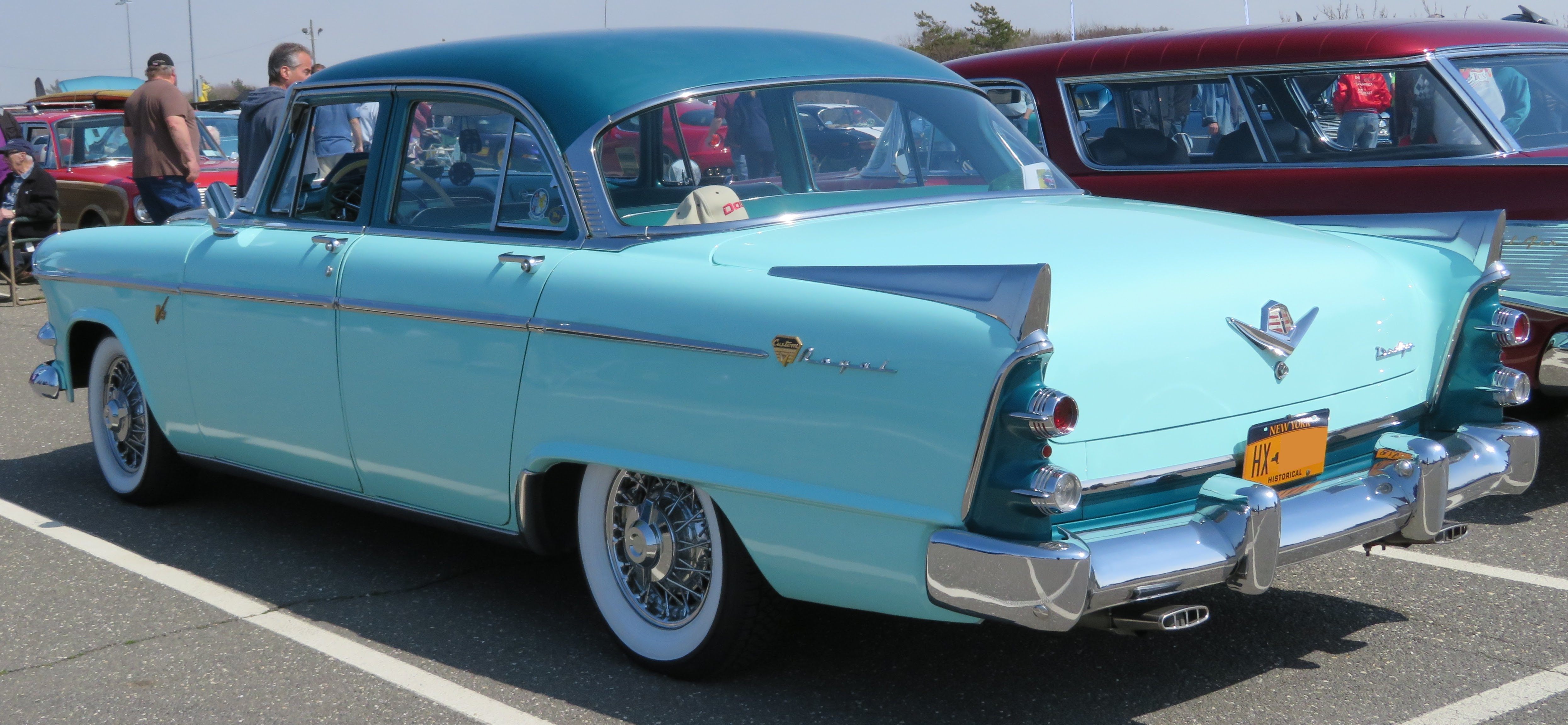 In Today Beach Car Show, Long Island, New York